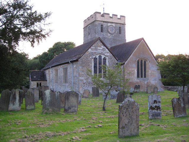 Charlwood: Church of St Nicholas. The church dates from the early Norman period, around 1080, and acquired its present shape around 1480. It's good to report that the clock was telling the correct time! Postscript: By a totally unplanned coincidence I appear to have replicated the viewpoint of the 1904 photograph of the church from the Francis Frith collection